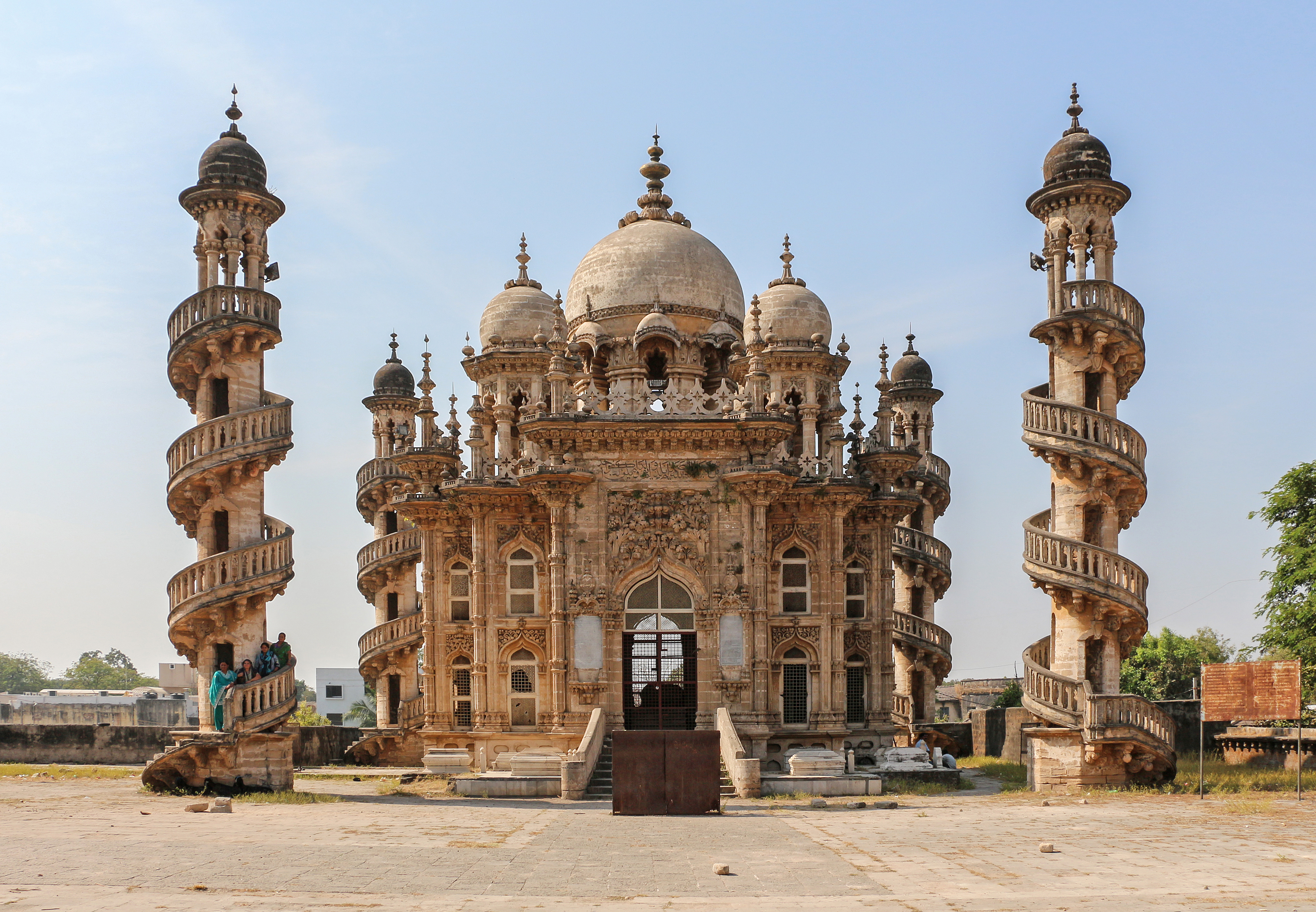 Tomb of Bahar-ud-din Bhar, Junagadh, India